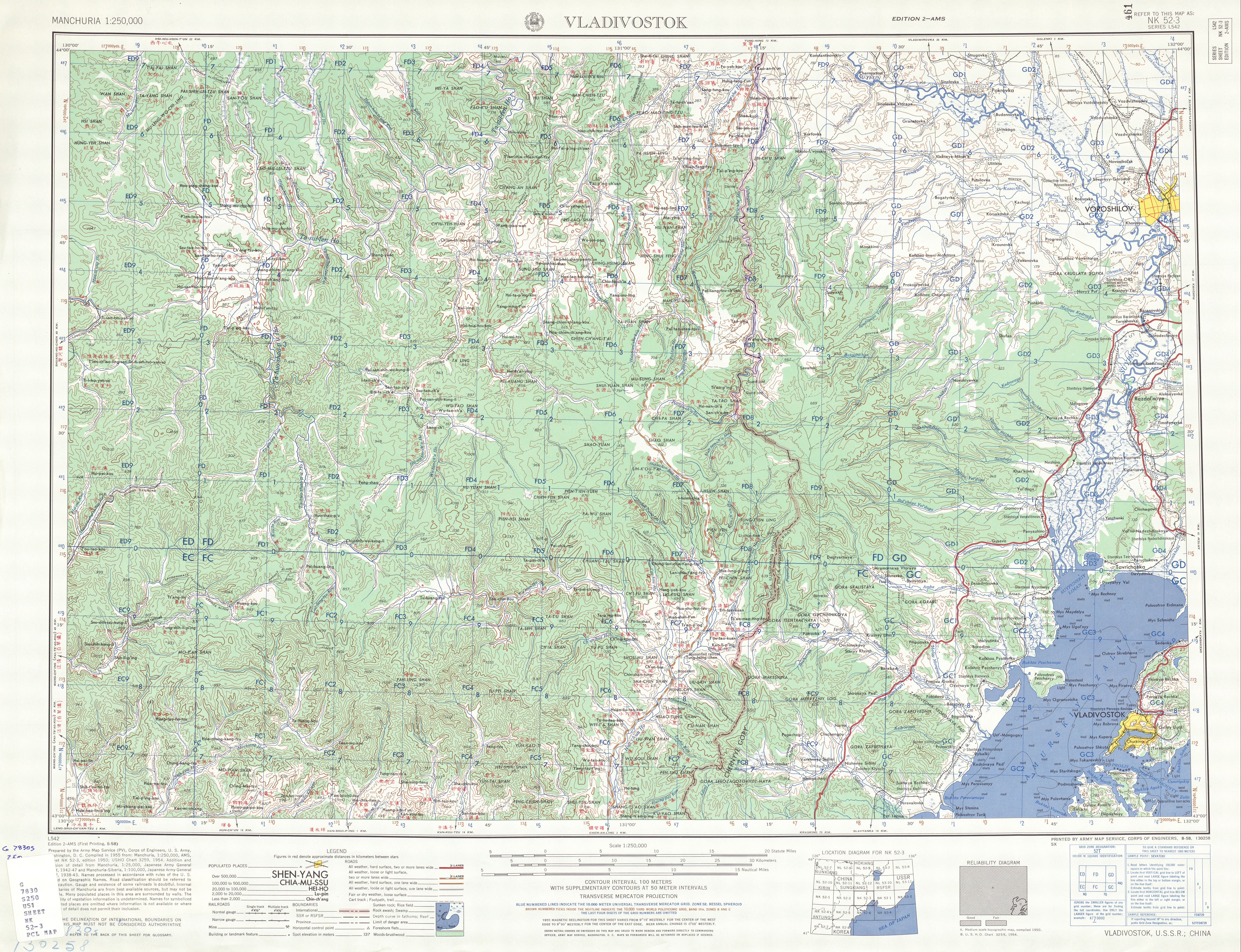 Map of Vladivostok area, USSR (present-day Russia)